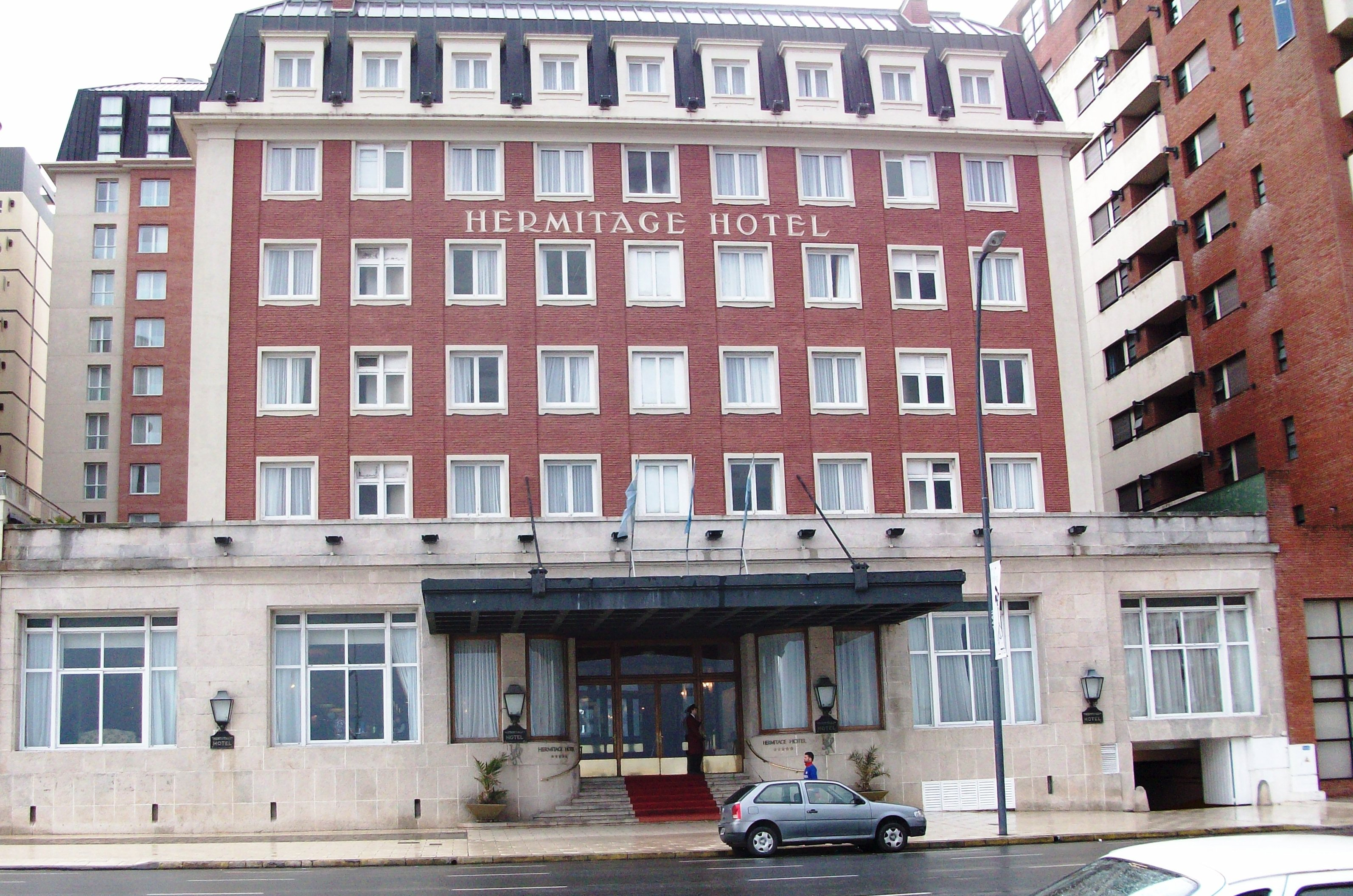 Hermitage Hotel, where took place the official meetings of the 4th Summit of the Americas from November 4 to 5, 2005